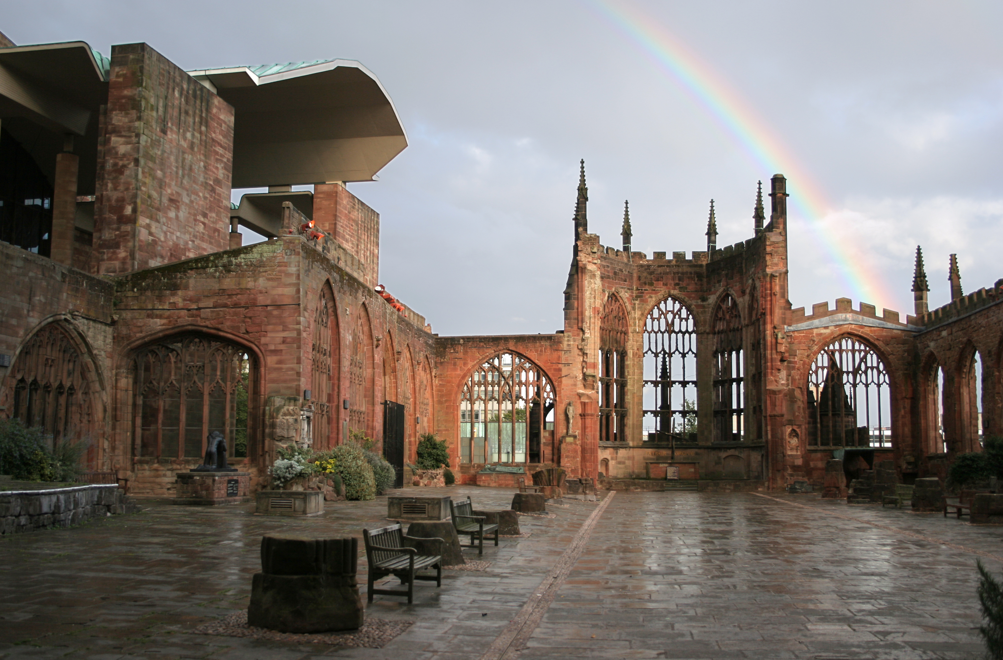 Coventry's old Cathedral ruins with rainbow.